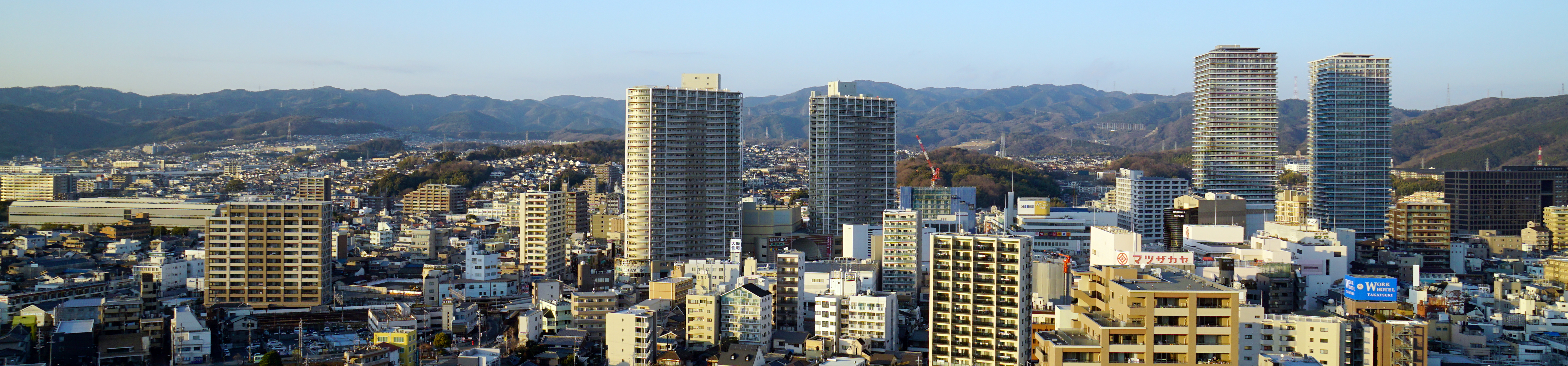 A city view from Takatsuki City Hall in Takatsuki, Osaka prefecture, Japan.